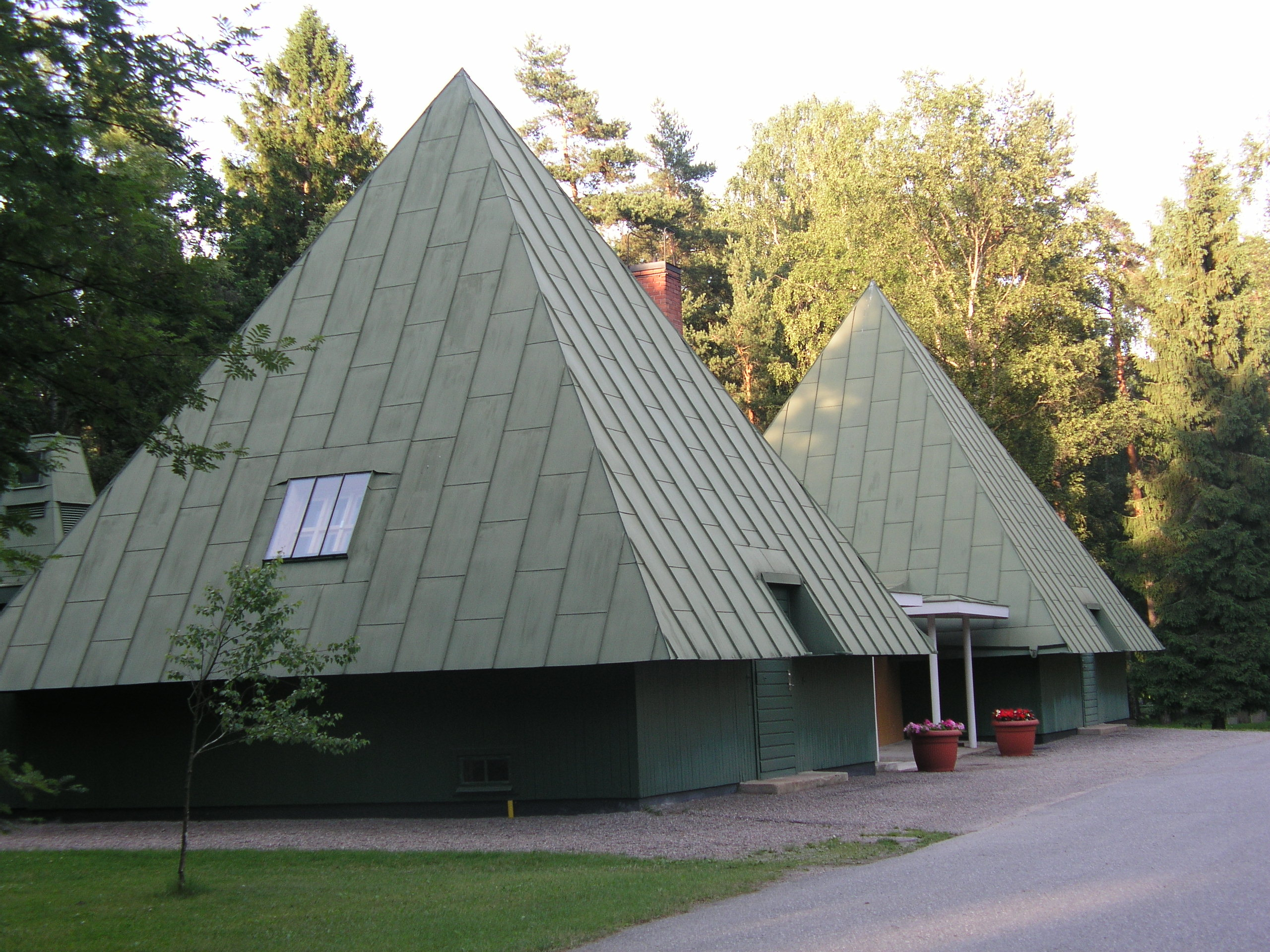 Skogskyrkogården, Tallum Pavilion. Foto: Xauxa 2003 The picture was taken the 5 of July 2003 by Håkan Svensson (Xauxa). No corrections have been done to the image.